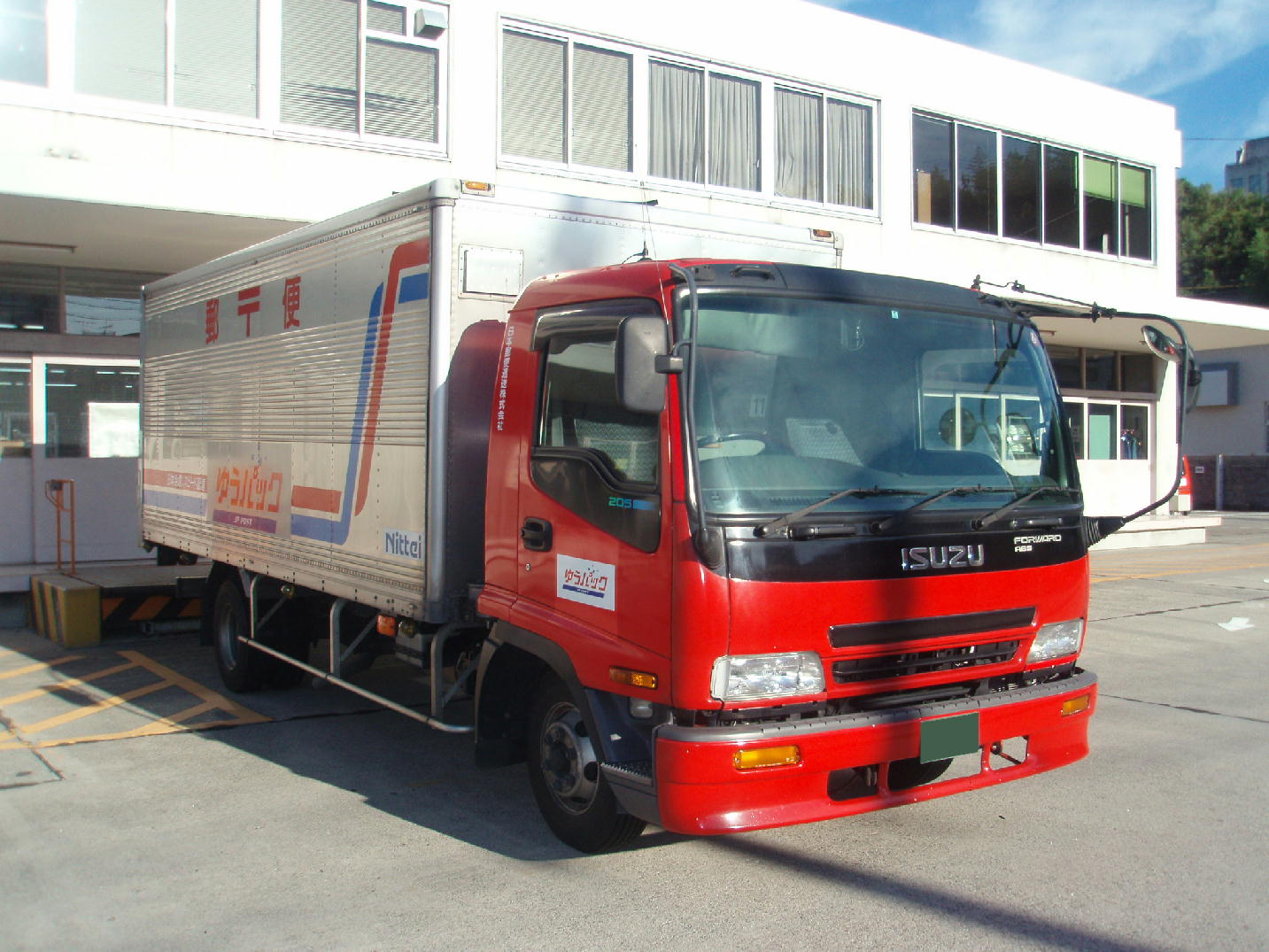 ISUZU FORWARD, Post Office Car （Truck） （There are a country and a region sold as F-series excluding a Japanese market, too.）